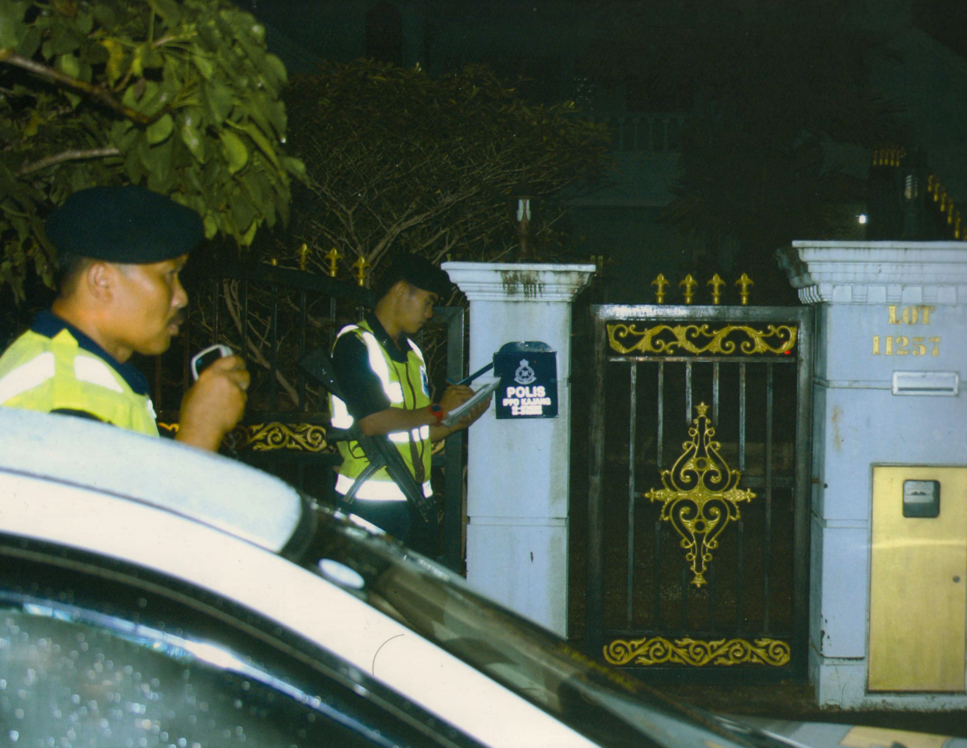 The Police Patrol car personnels take patrol and monitoring over the houses were considered often become criminal targets and surveillance on to the residence of VIP property.